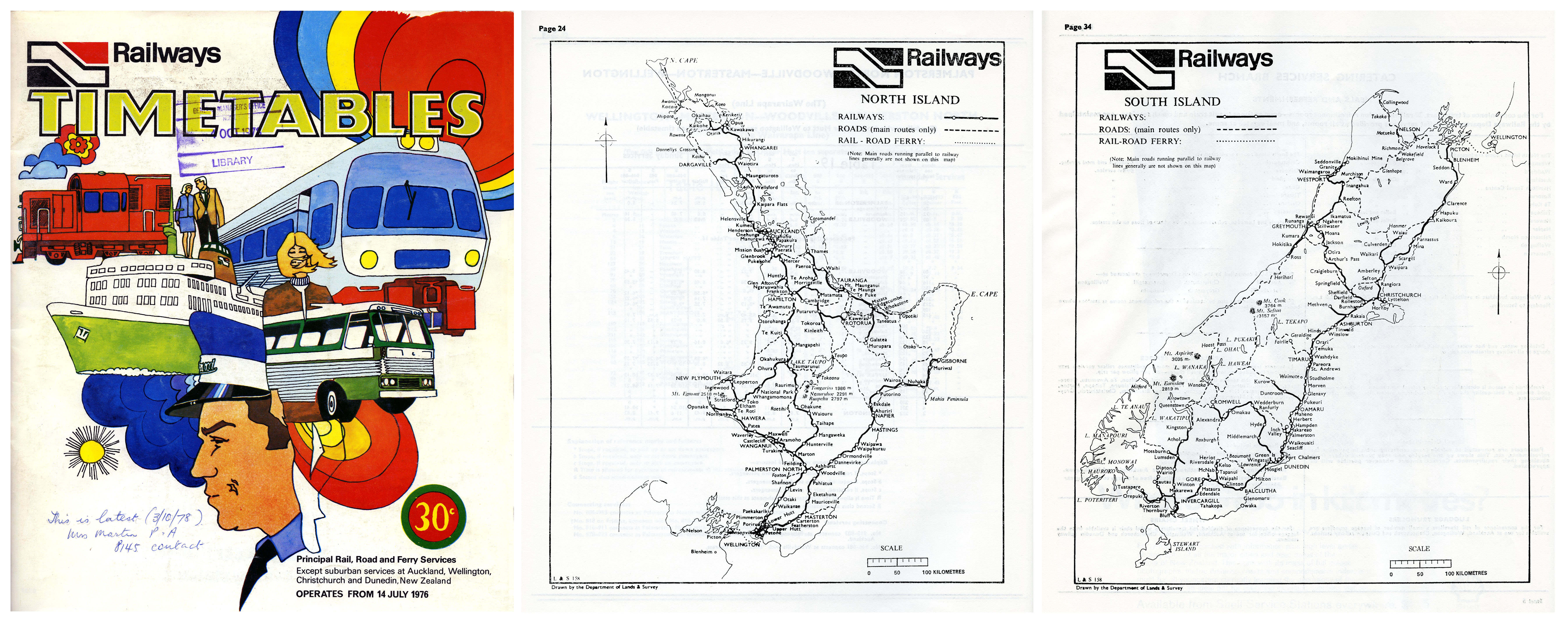 The images above are from a rail, road and ferry timetables brochure that took effect from 14 July 1976. Published by the New Zealand Government Railways Department, the brochure included North and South Island main rail and bus transport lines, and the Wellington/ Picton ferry service. New Zealand’s first railway lines were laid down in the 1860s in the South Island, transporting freight from the hinterlands to market and ports. Railways also enabled Pākehā settlement by providing improved access to land. In the 1870s, trunklines were controlled separately, first provincially and then by island. The Railways Department establishment in 1880, consolidated management of the North Island and Middle (South) Island rail lines under one authority, responsible to the Minister of Public Works. The New Zealand Government Railways Department operated for 101 years until 1981, becoming the New Zealand Railways Corporation in 1982. Railways and Road Services Timetables Archives Reference: ABIN W3337 Box 182 For further information please For updates on our On This Day series and news from Archives New Zealand, follow us on Twitter Material from Archives New Zealand